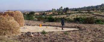 Threshing floor in Lafa Mizane Birhan